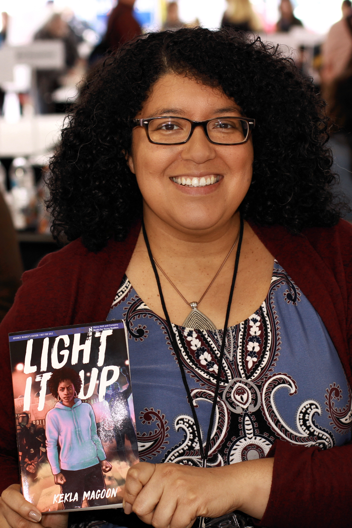 Author Kekla Magoon at the 2019 Texas Book Festival in Austin, Texas, United States.